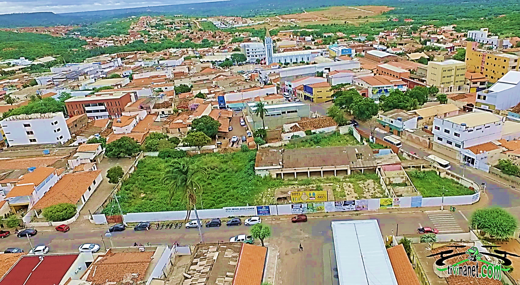 city araripina